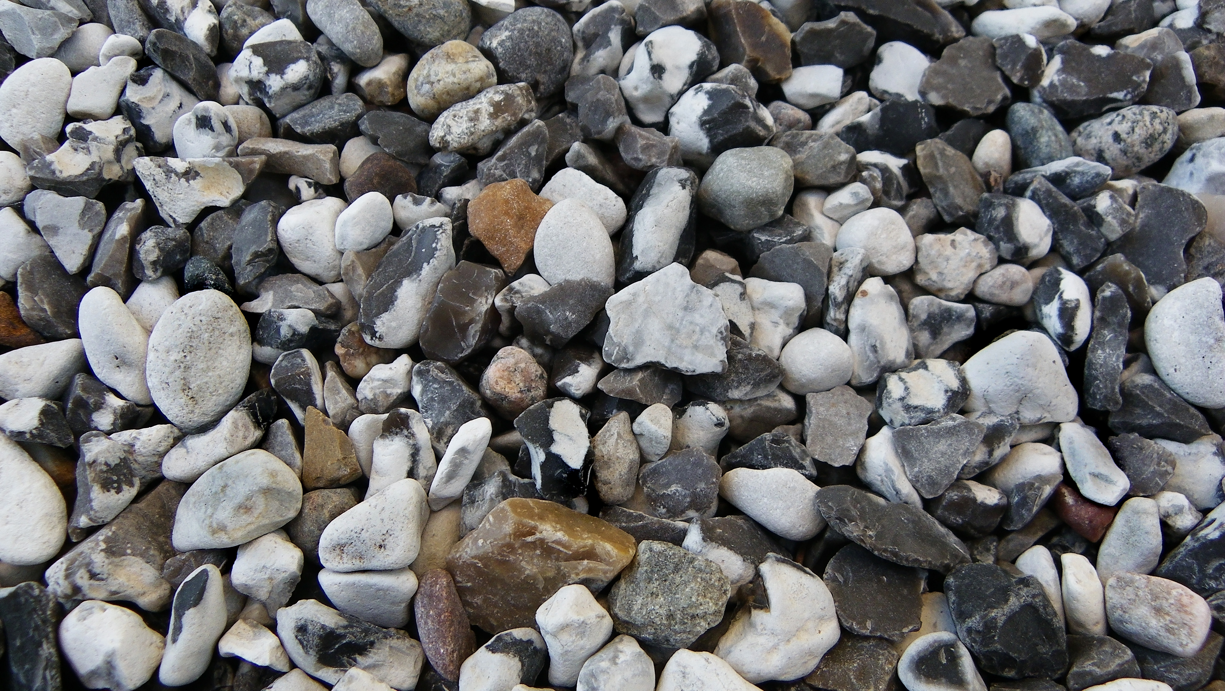 A close-up of a gravel road in Stockholm, Sweden. The stones are about 30 mm large.